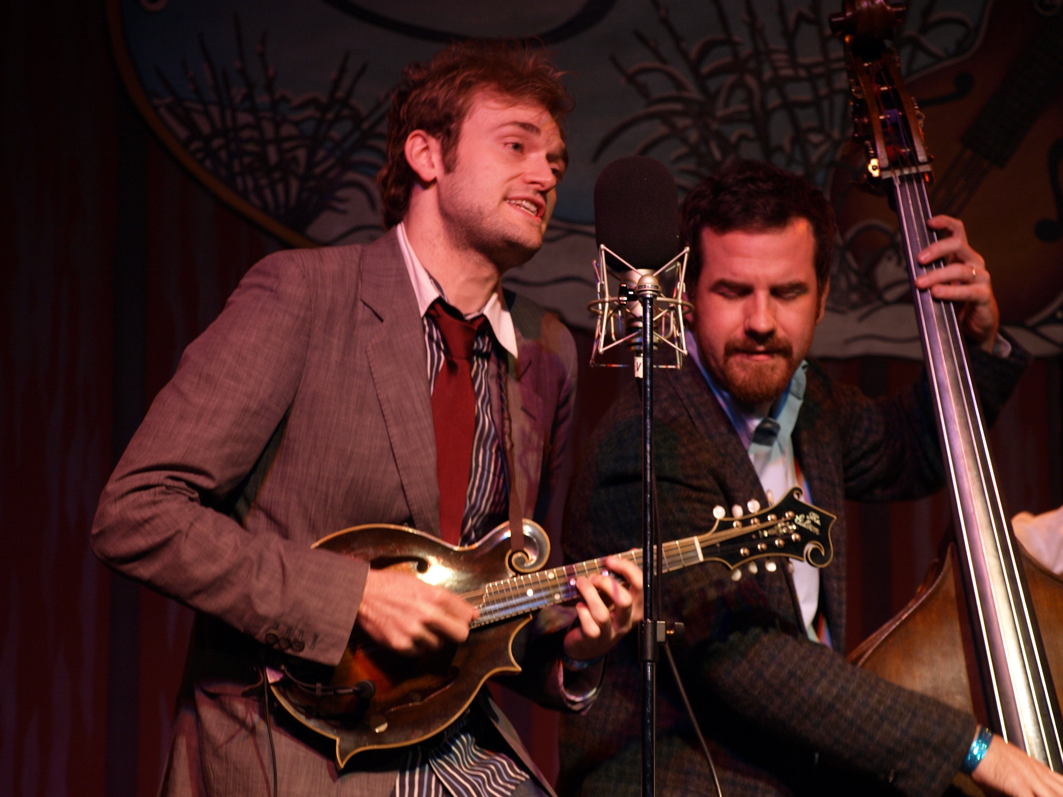 Chris Thile and Greg Garrison of the Punch Brothers at Wintergrass, Bellevue, Washington, March 11, 2008